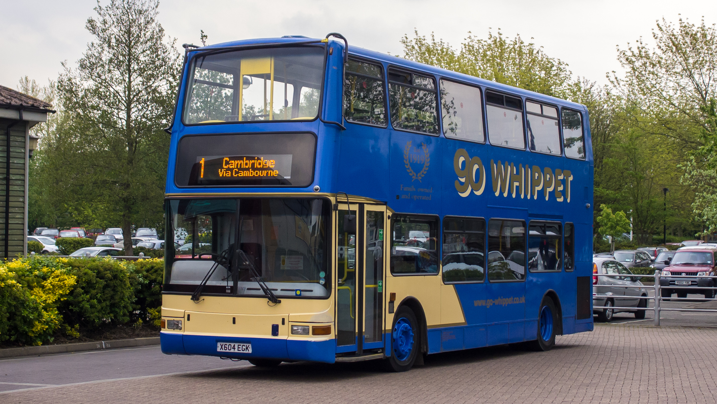 Go Whippet X604 EGK, a Dennis Trident/Plaxton President, in St Ives bus station, Cambridgeshire on route 1.